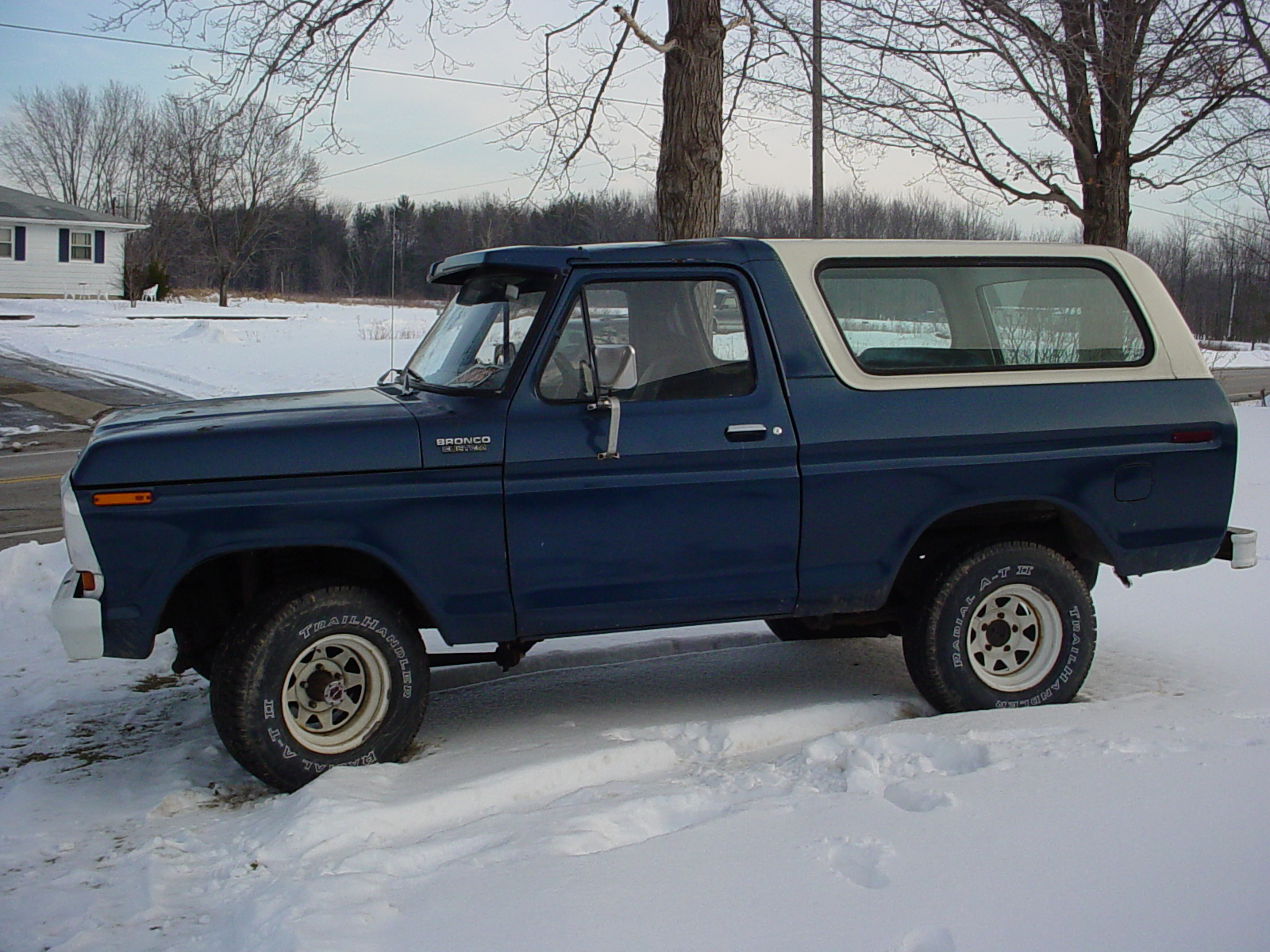 1978 ford bronco